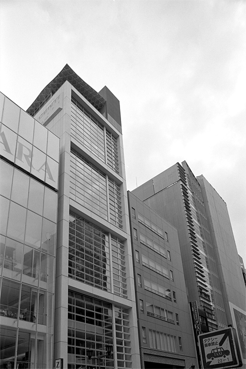 Nicolas G. Hayek CenterDesigner:Shigeru Ban Place:JP-Tokyo 104-8188, Chuo-ku,Tokyo-to,Japan Completion Year: 2007See: description by swatchgroup